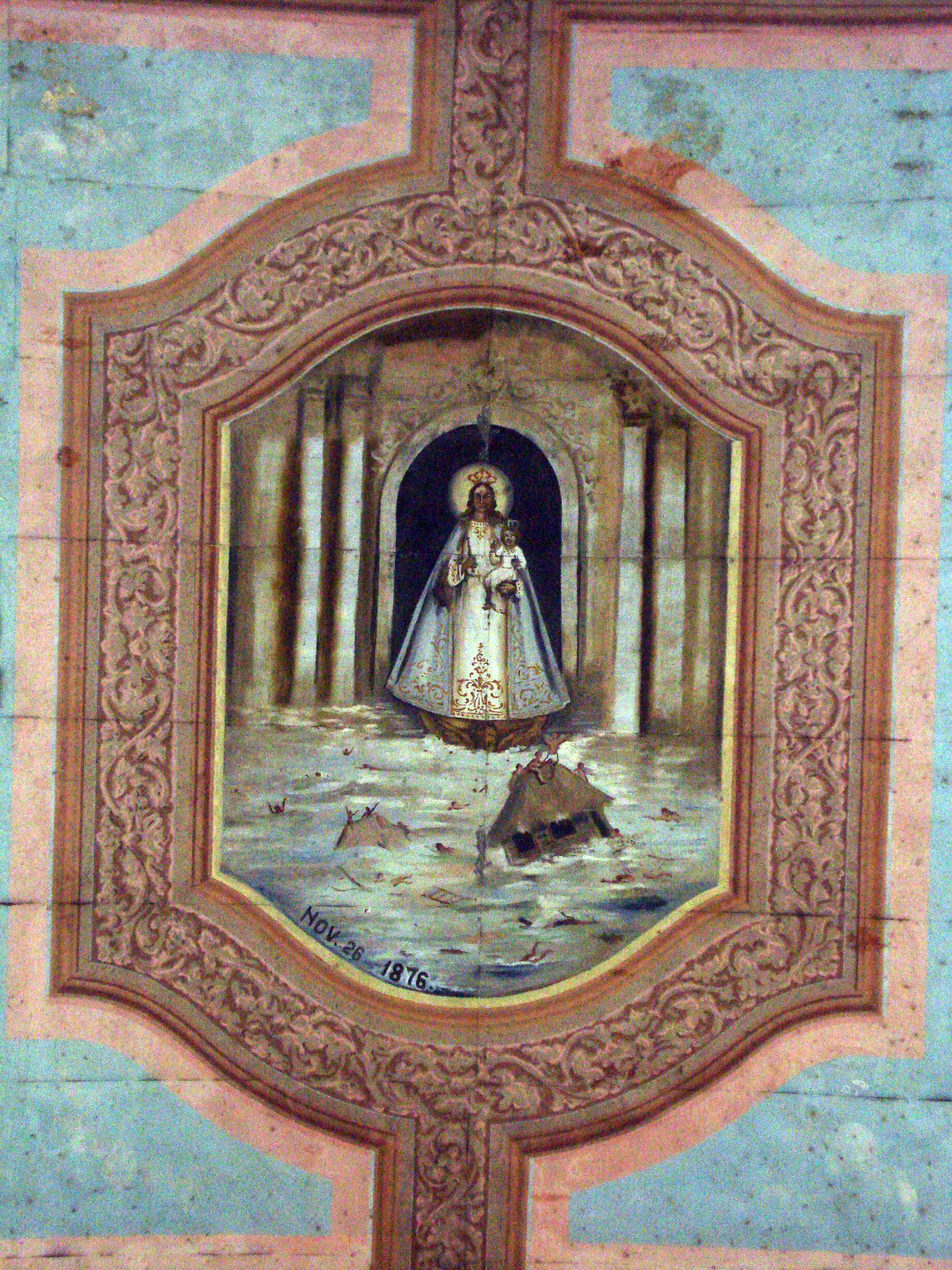 Painting on the Ceiling of San Pedro Church in Loboc